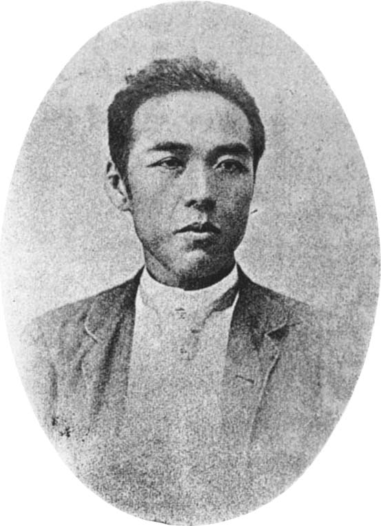 Mr. Michiyo Naka, professor of the Higher Normal School.